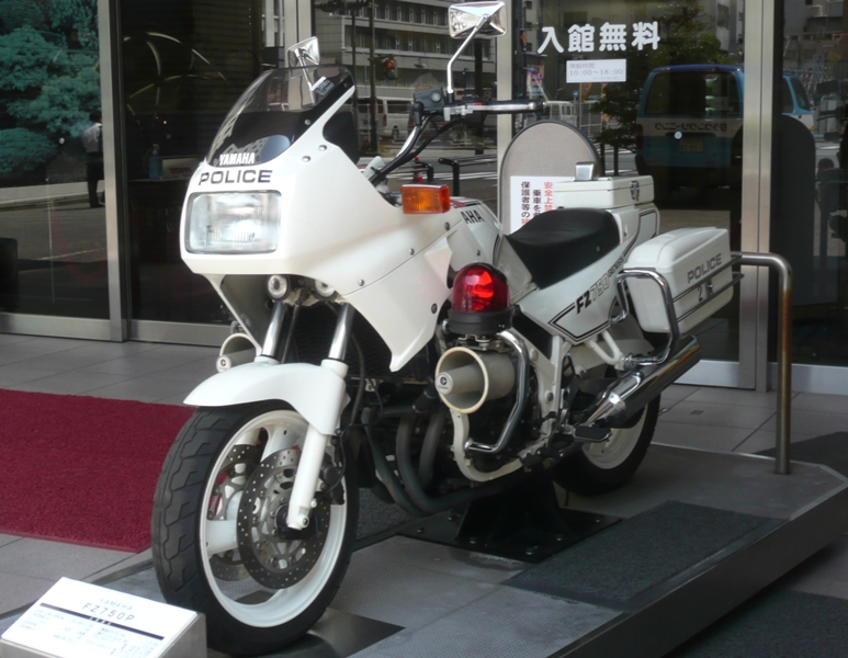 Yamaha FZ750P.